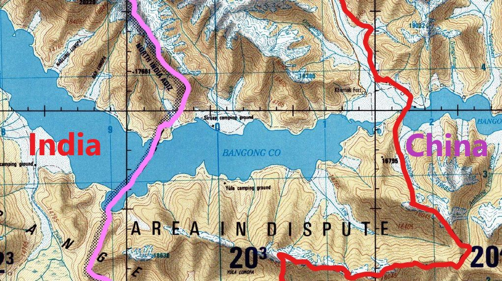 Pangong Tso/Bangong Co with the Chinese (pink) and Indian (red) claim lines. The area in the middle is disputed area. (inked)